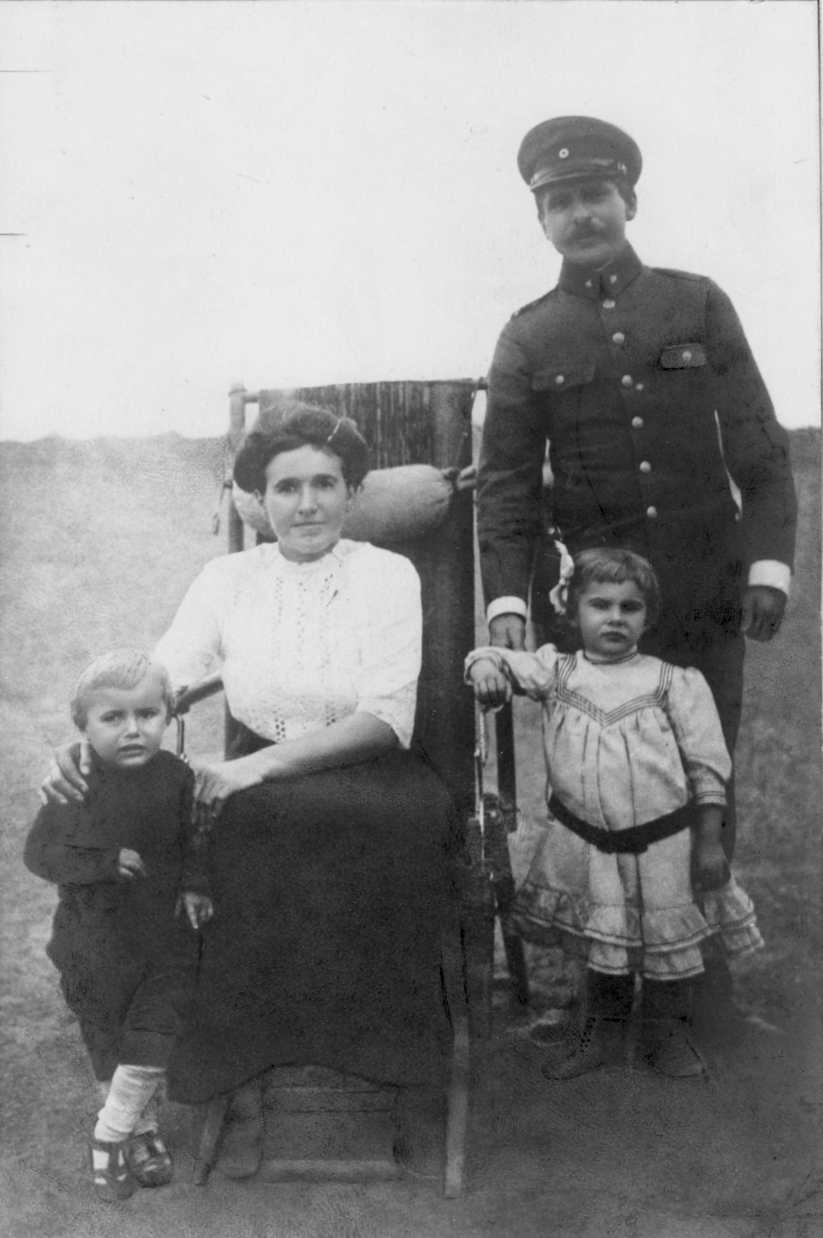 German Policeman (Sergeant) and Cavalryman (Unteroffizier, similar Sergeant/Corporal) Lorenz Horn with wife Barbara and children Käthe and Hans. Farm Fahlgras (Vaalgras) near Asab. See also File:Kavallerie Wk I.jpg